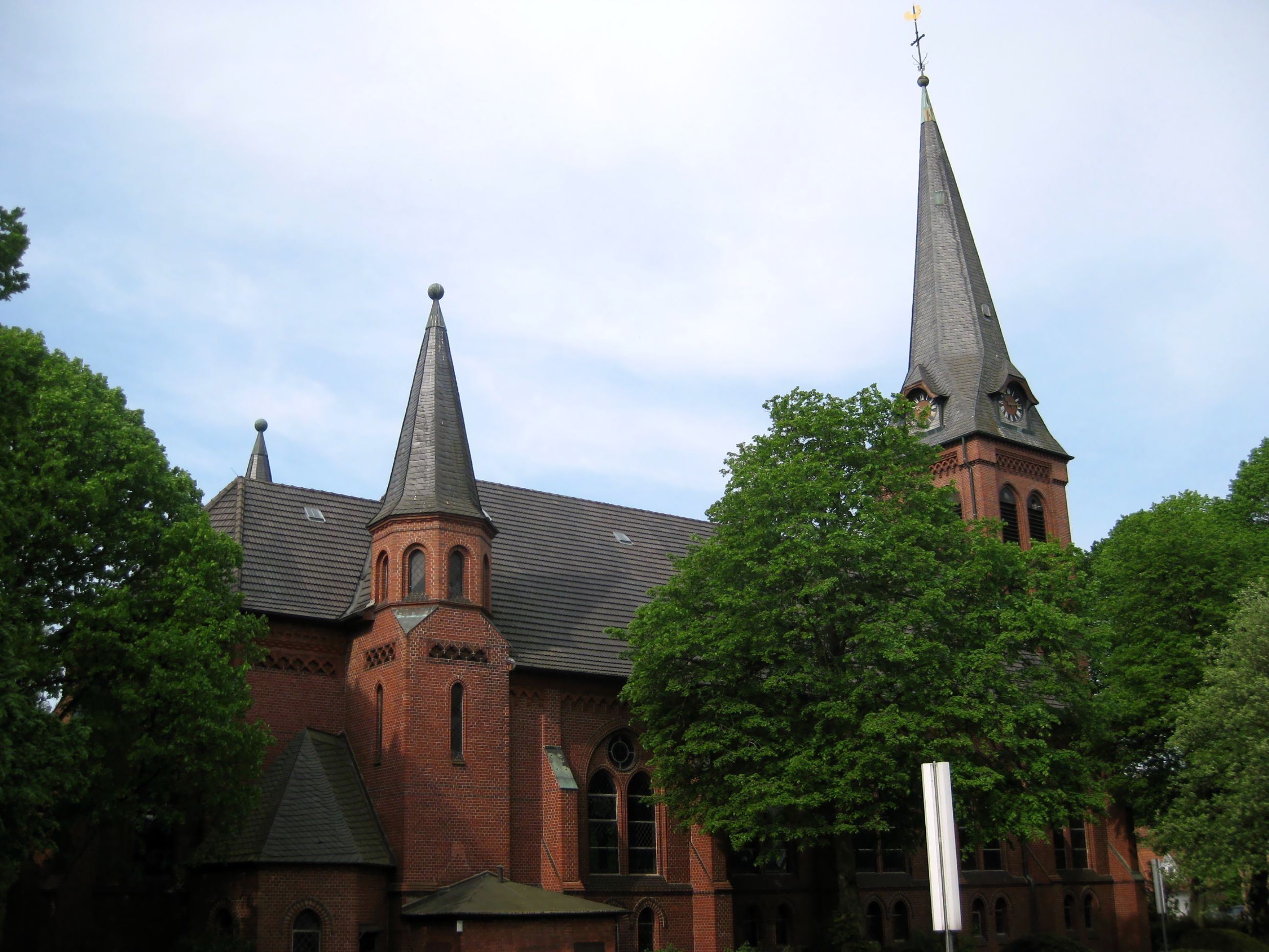 lutheran parish church in Bielefeld-Ummeln